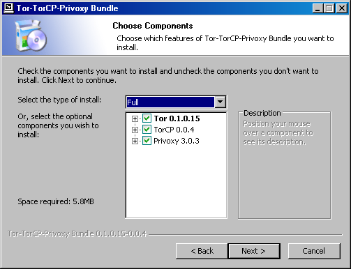 Tor TorCP Privoxy bundle installation screenshot - choose components page